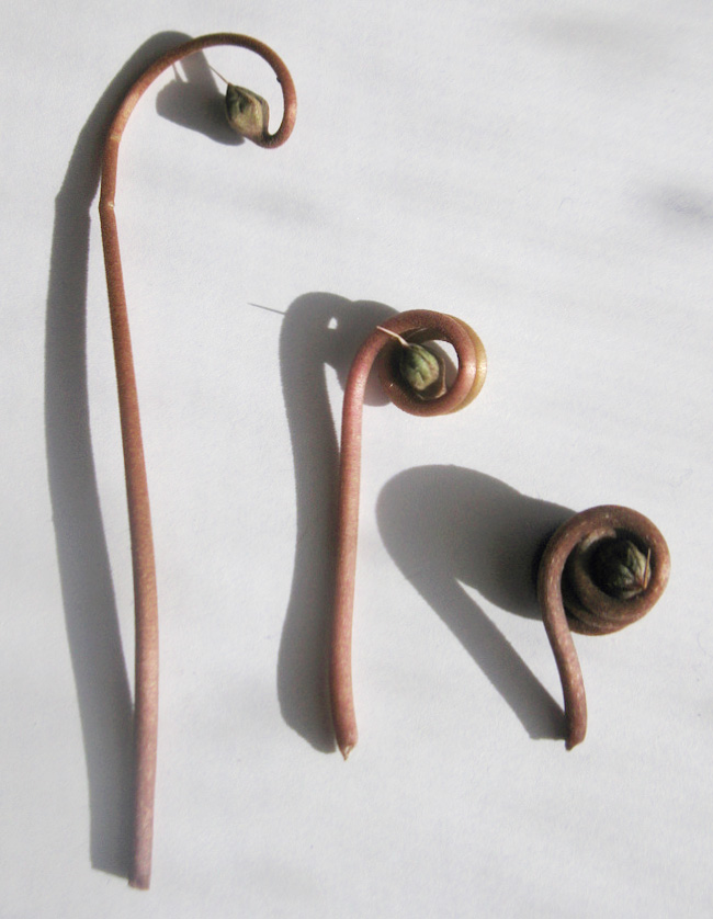 Cyclamen hederifolium flower stalks coiling after fertilization